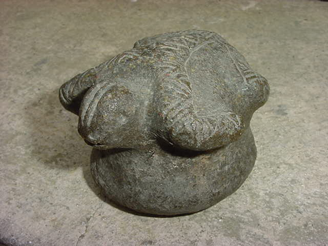 Baguanense aborigin idol.